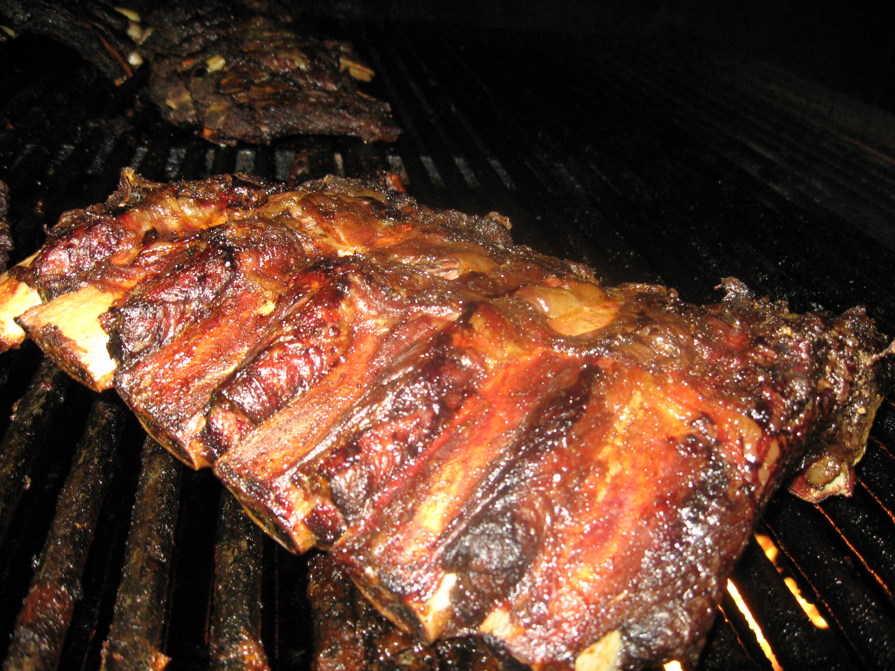 Interstate Bar-B-Que - Memphis, TN Photo by Rien T. Fertel for the SFA Summer 2008